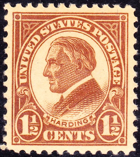 US Postage Stamp: Warren G. Harding, Issue of 1925, 1-1/2c